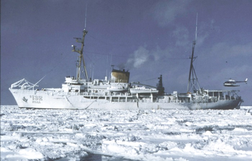 NOAA Ship Surveyor conducting helicopter operations in the Bering Sea